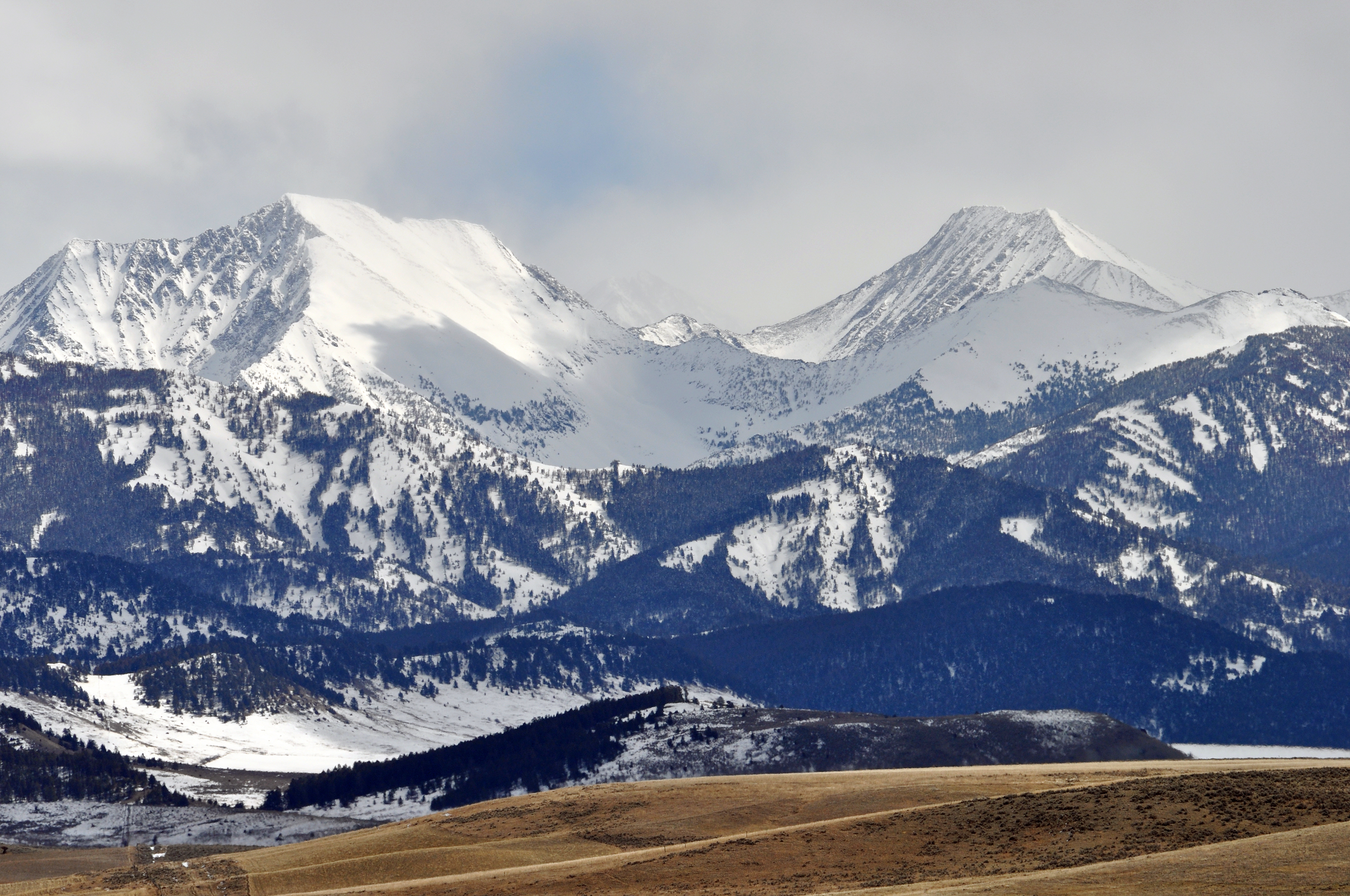 Peaks in the Crazy Mountains, Park County, Montana as viewed from Shields River, Wilsall, Montana, April 2010